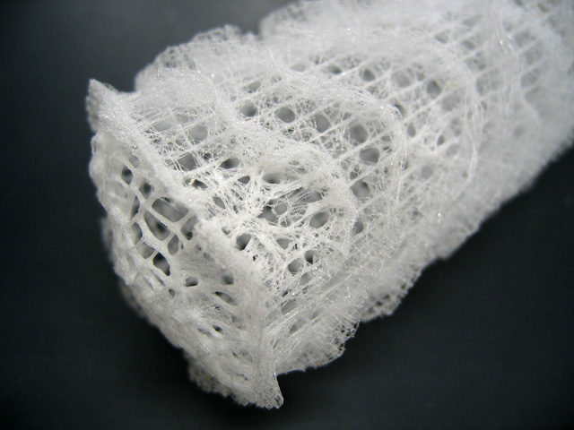 Euplectella sp. (Venus' Flower Basket) / from Philippine Sea / Canon IXY DIGITAL 500